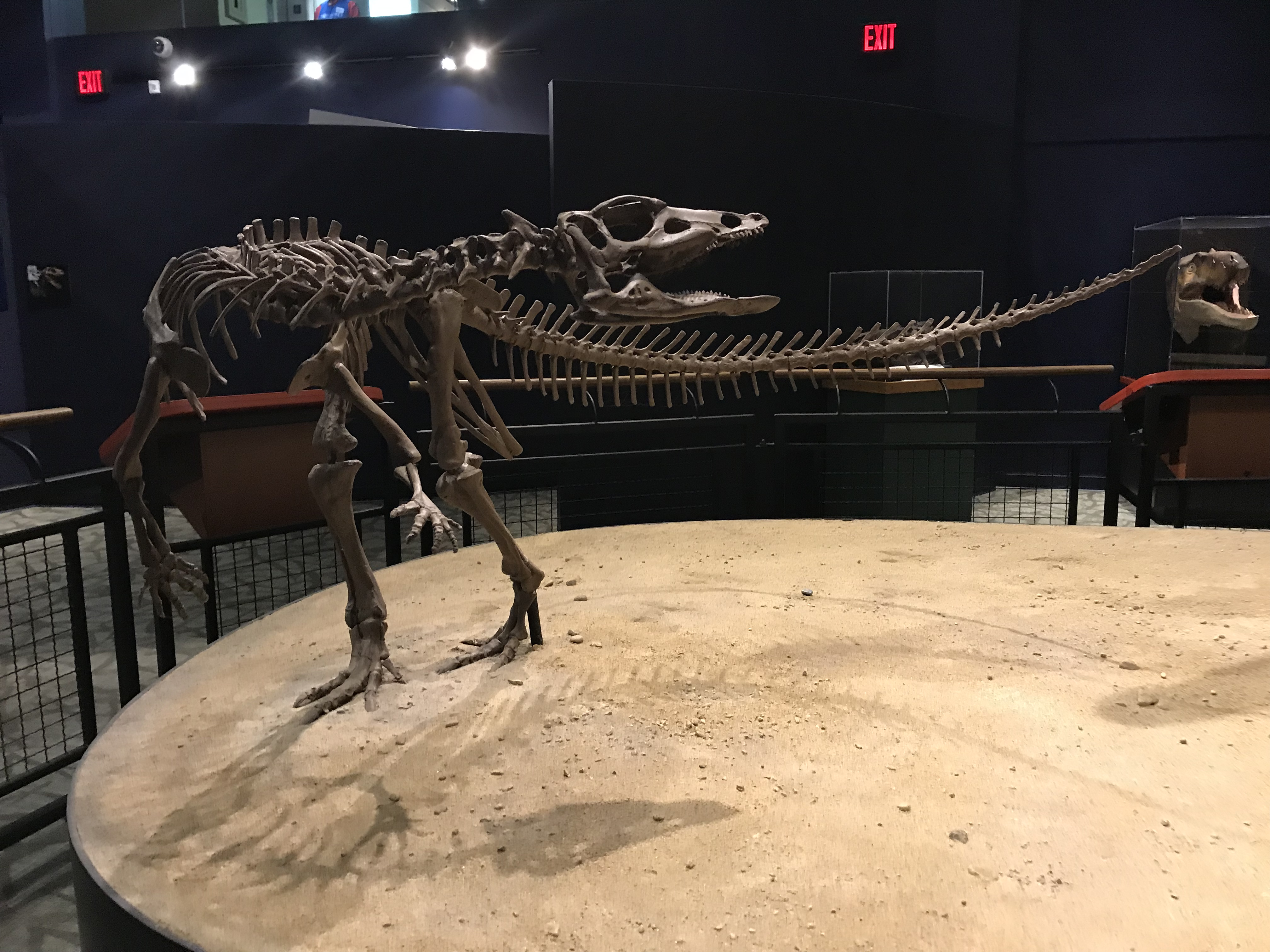 Dinosaur.